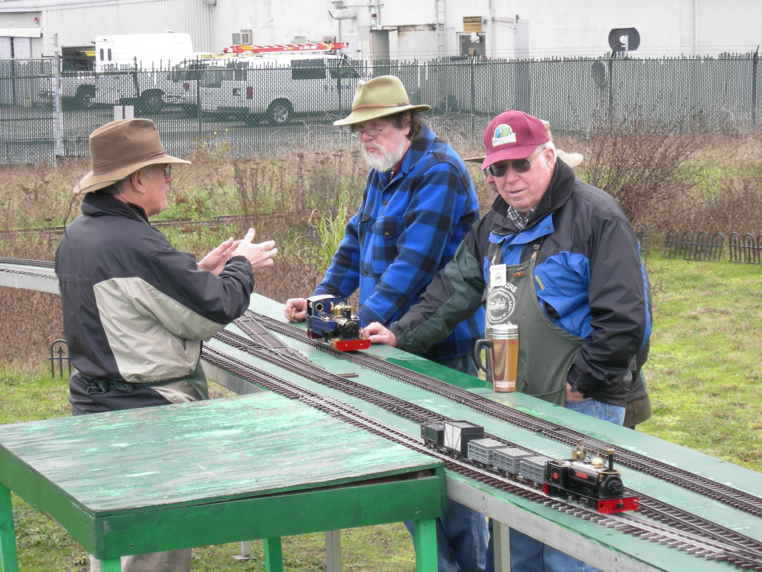 Model steam train enthusiasts. Photographed outside Georgetown PowerPlant Museum, Seattle, Washington, USA.